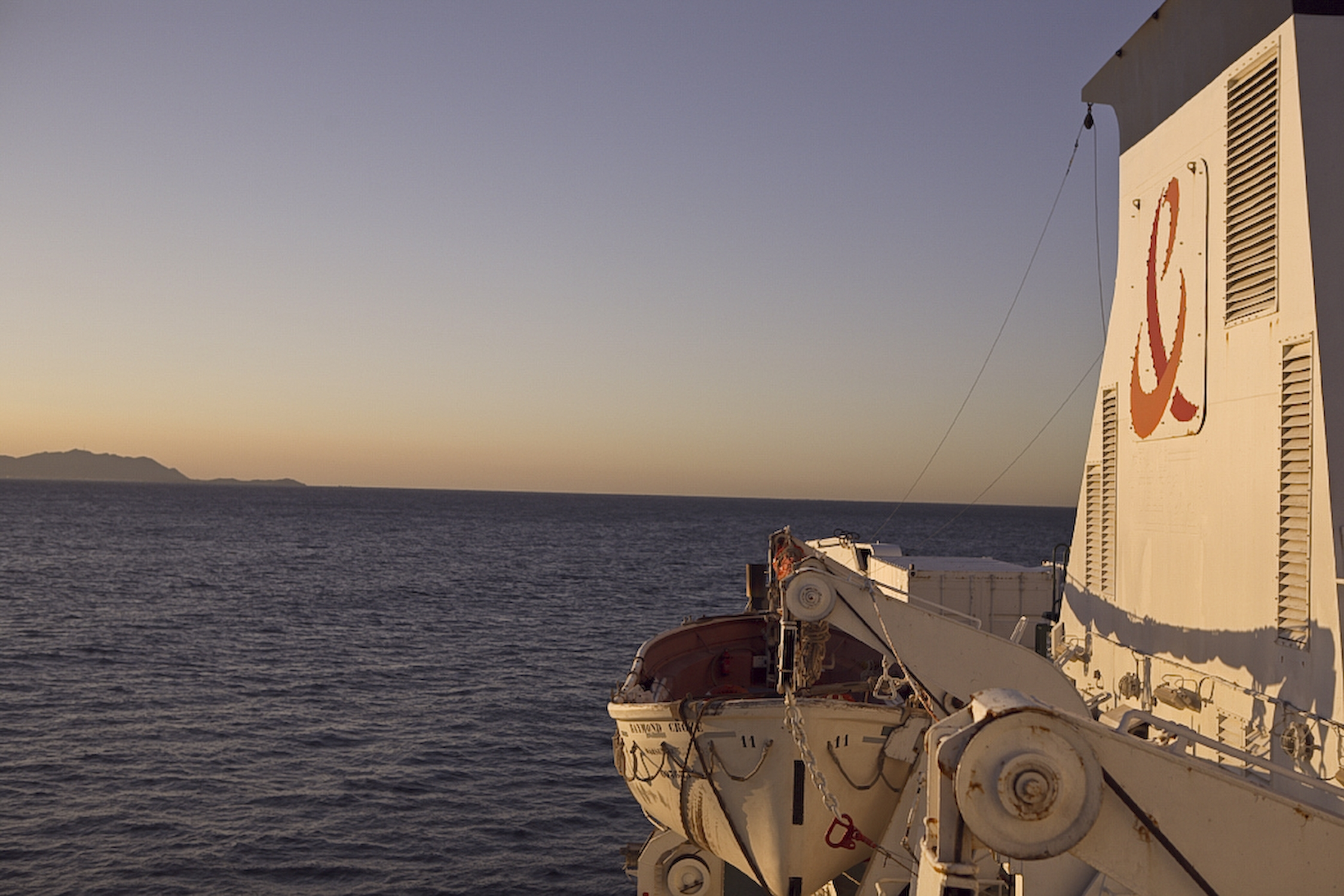 France Telecom Marine, cable ship Raymond Croze